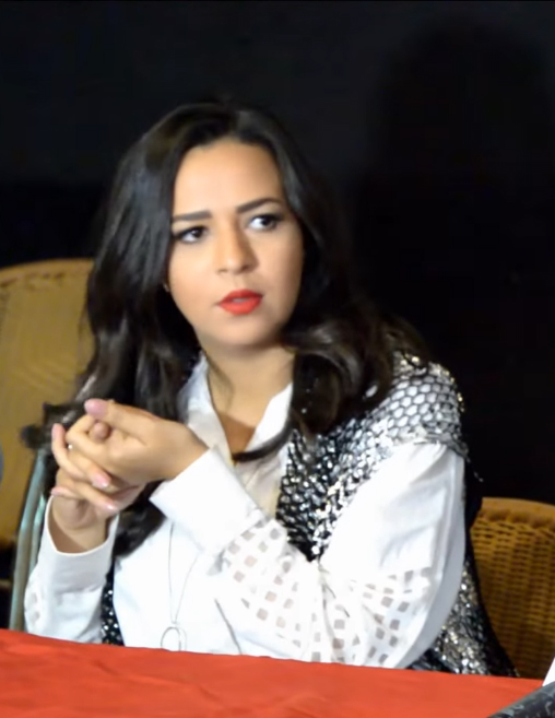 Emy Samir Ghanem in press Conference